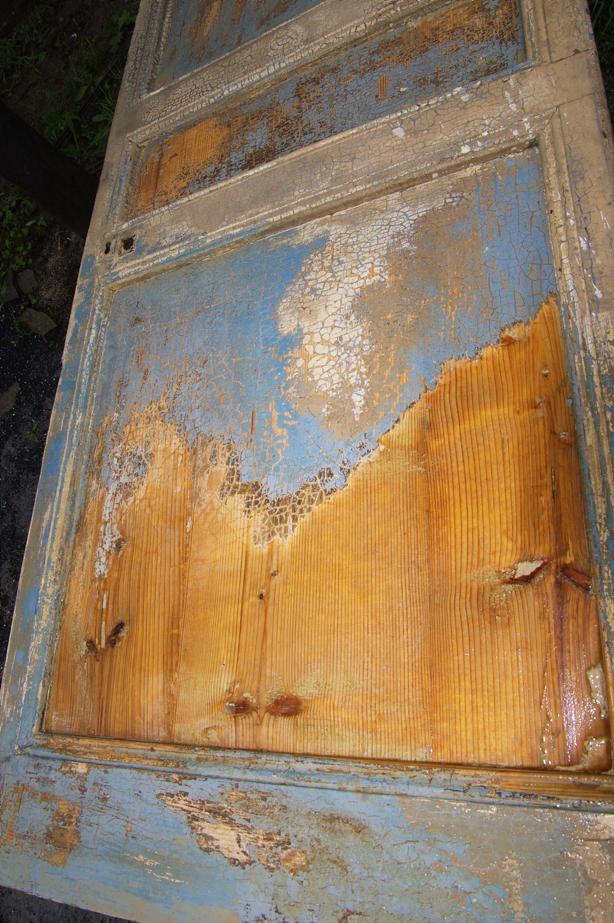 Partial paint stripping of an old wood door using an Aqueous solution of caustic soda.